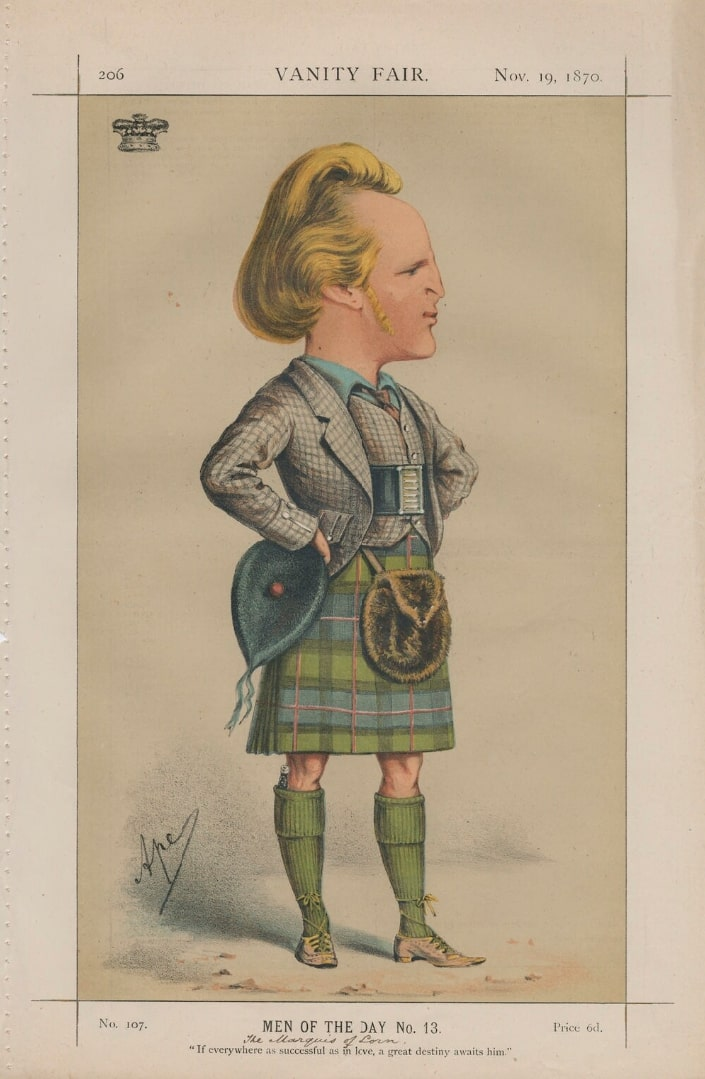 Caricature of John Campbell, The Marquess of Lorne. Caption read "If everywhere as successful as in love a great destiny awaits him".